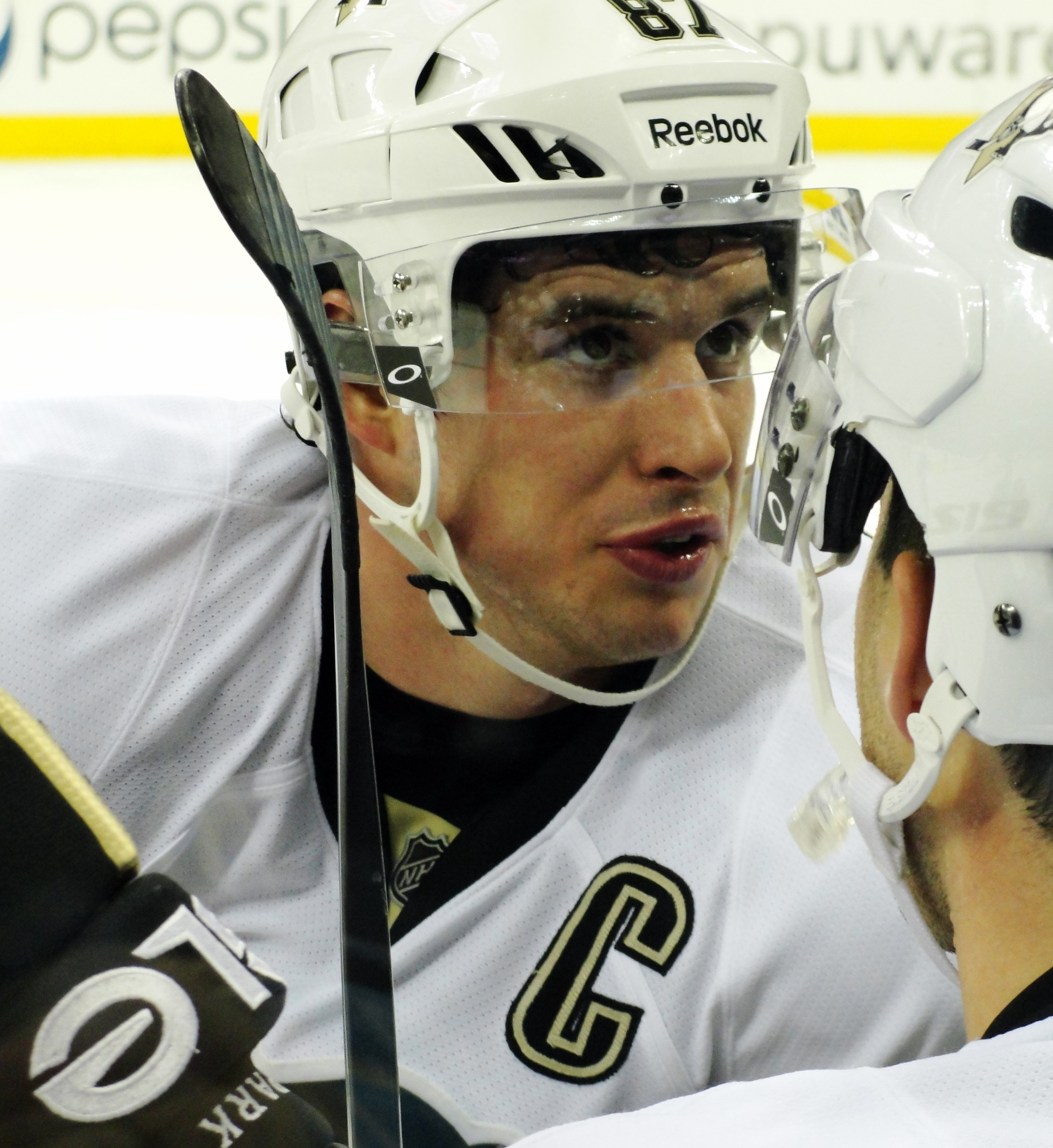 Sidney Crosby during a Penguins victory over the Hurricanes at RBC Center, December 3, 2011. From PensAreYourDaddy.